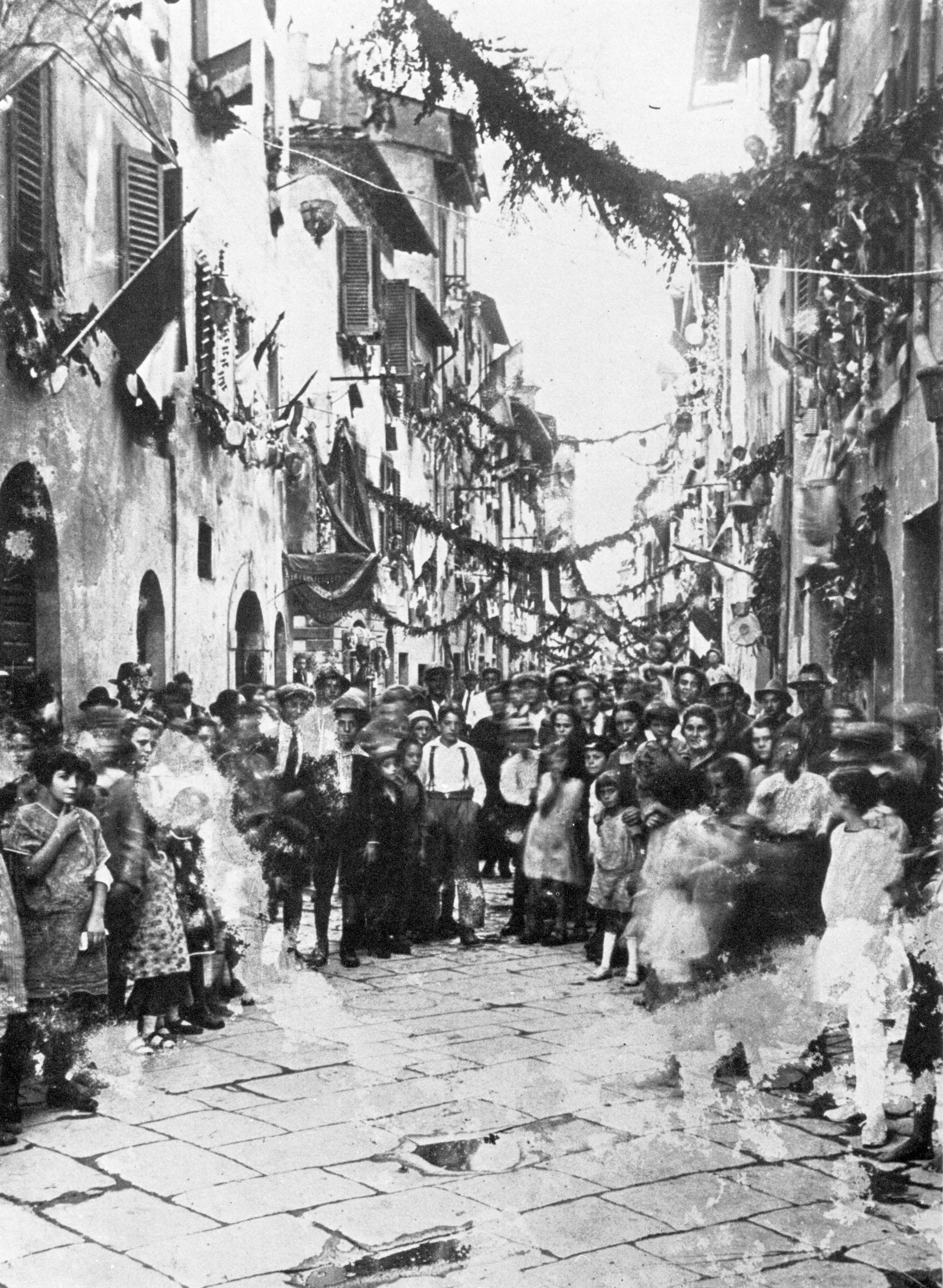 People of the "Cantone", a forme district of Montevarchi's downtown, on Holiday